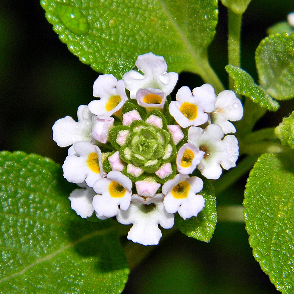 Another interesting native growing along the Juno Dunes Natural Area East trail near A1A and the beach. This cool Lantana is also called buttonsage. I think I had to use the flash. (This is the native cousin of the invasive, non-native orange Lantana camara.)